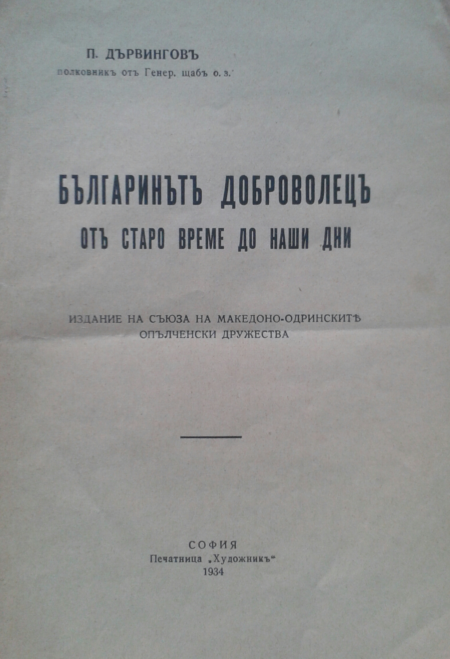 "Balgarinat dobrovolets" ("The Bulgarian as a Volunteer") front page, 1934.